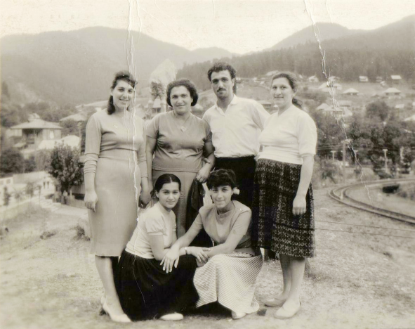 Georgian Jews from Sachkhere. Now live in Israel.